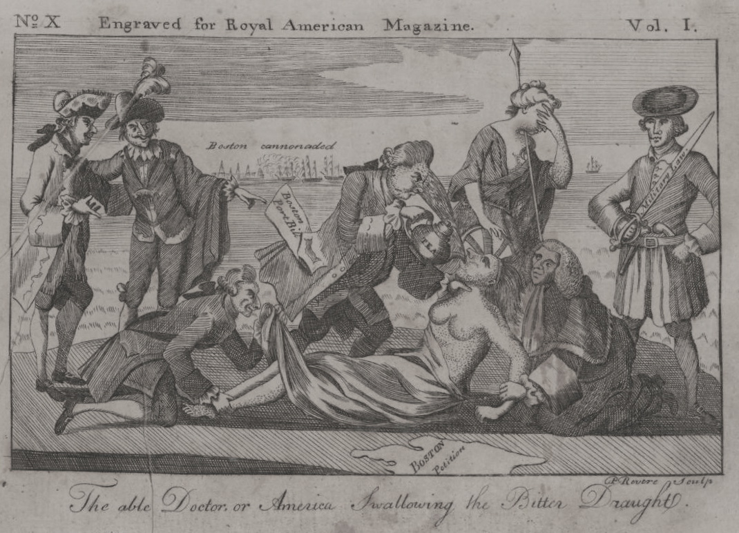 The able Doctor, or America Swallowing the Bitter Draught. Creator: Paul Revere, engraver. Source Title: The royal American magazine, or Universal repository of instruction and amusement. For June, 1774. Boston: Printed by and for I. Thomas, near the Market ..., 1774. "Cartoon showing a European gentleman with the Boston Port Bill in his pocket pouring tea down a [native American] woman's mouth. She is being held down by a lascivious gentleman at her feet and a judge at her arms. A woman holding a spear and shield covers her eyes while a gentleman holds a sword with "Military Law" on it. In the background is a scene of "Boston cannonaded" and in the foreground is a tattered paper containing Boston's petition to England." "Britannia weeps as Frederick, Lord North, pours tea into the mouth of America, while a Frenchman and a Spaniard (with the Order of the Golden Fleece) watch from the side. William Murray, first earl of Mansfield (Lord Chief Justice) and an opponent of repealing the Stamp Act, holds America's wrist while John Montagu, fourth earl of Sandwich (First Lord of the Admiralty), holds her ankles. The man with a sword represents John Stuart, earl of Bute, (prime minister for George III from 1762 to 1763 and instrumental in negotiating the Treaty of Paris) in a Scottish hat and kilt. Revere copied this image from an original in London Magazine, Apr. 1774, vol. 43, p. 185; the only change being that Revere added the word "tea" to the teapot. The Boston Port Bill, levied as a punishment for the Boston Tea Party, was signed into law on March 31, 1774, and provided the final wedge between Massachusetts and the crown. Image is placed horizontally on page. Published first by Isaiah Thomas and then Joseph Greenleaf in Boston, this magazine was produced from January 1774 until April 1775 when the war put an end to publication."